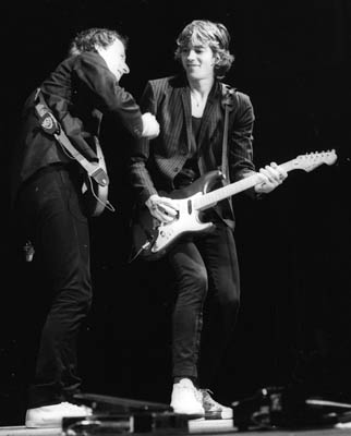 Mark Knopfler and Hal Lindes performing with Dire Straits